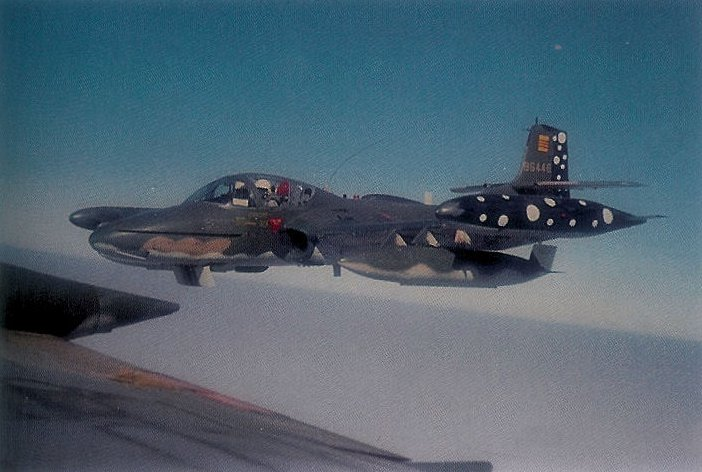 A-37A of the South Vietnamese Air Force 546th Fighter Squadron, Binh Thuy Air Base, January 1973